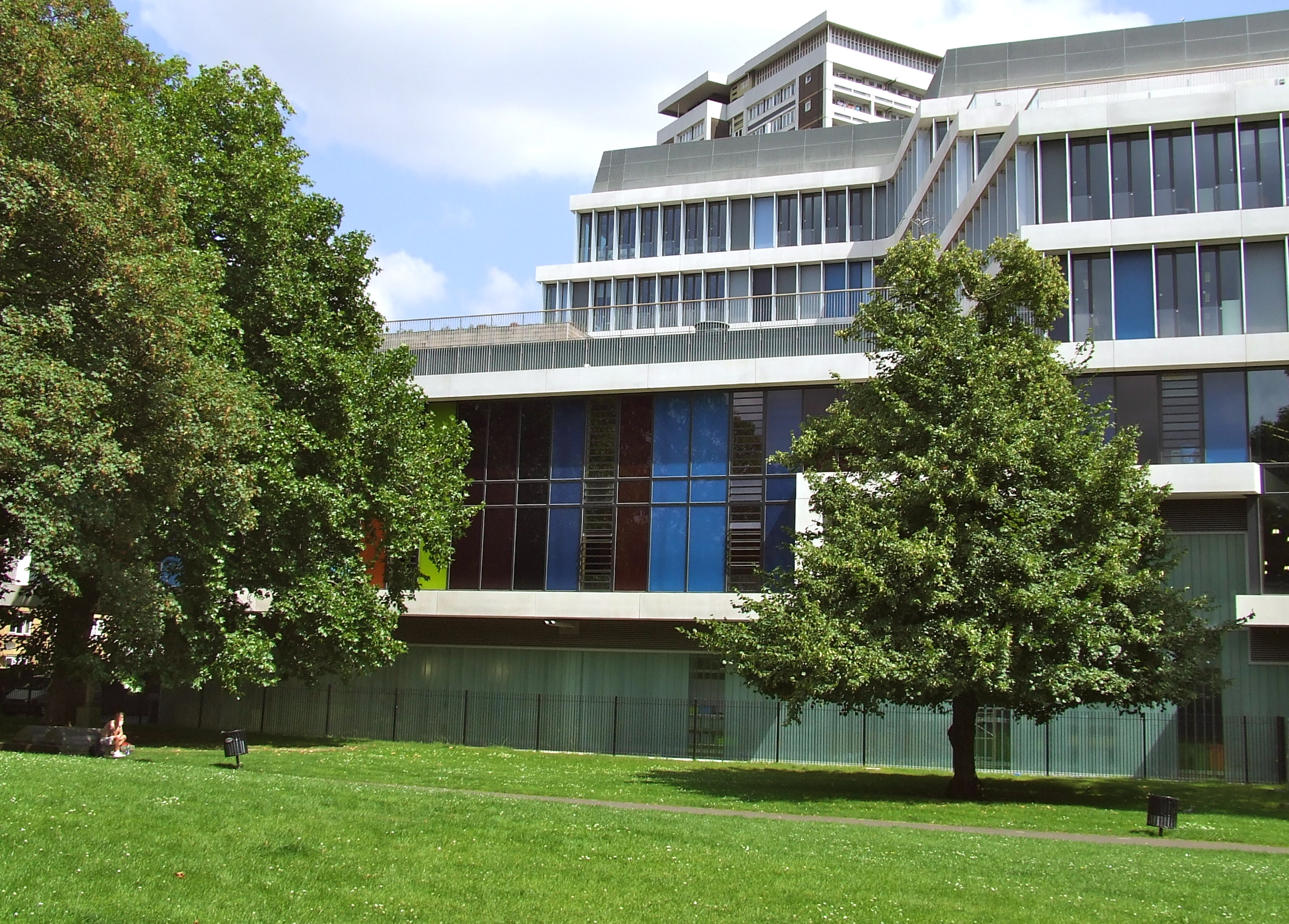 City of Westminster College Paddington Green Campus, from St Mary's Churchyard